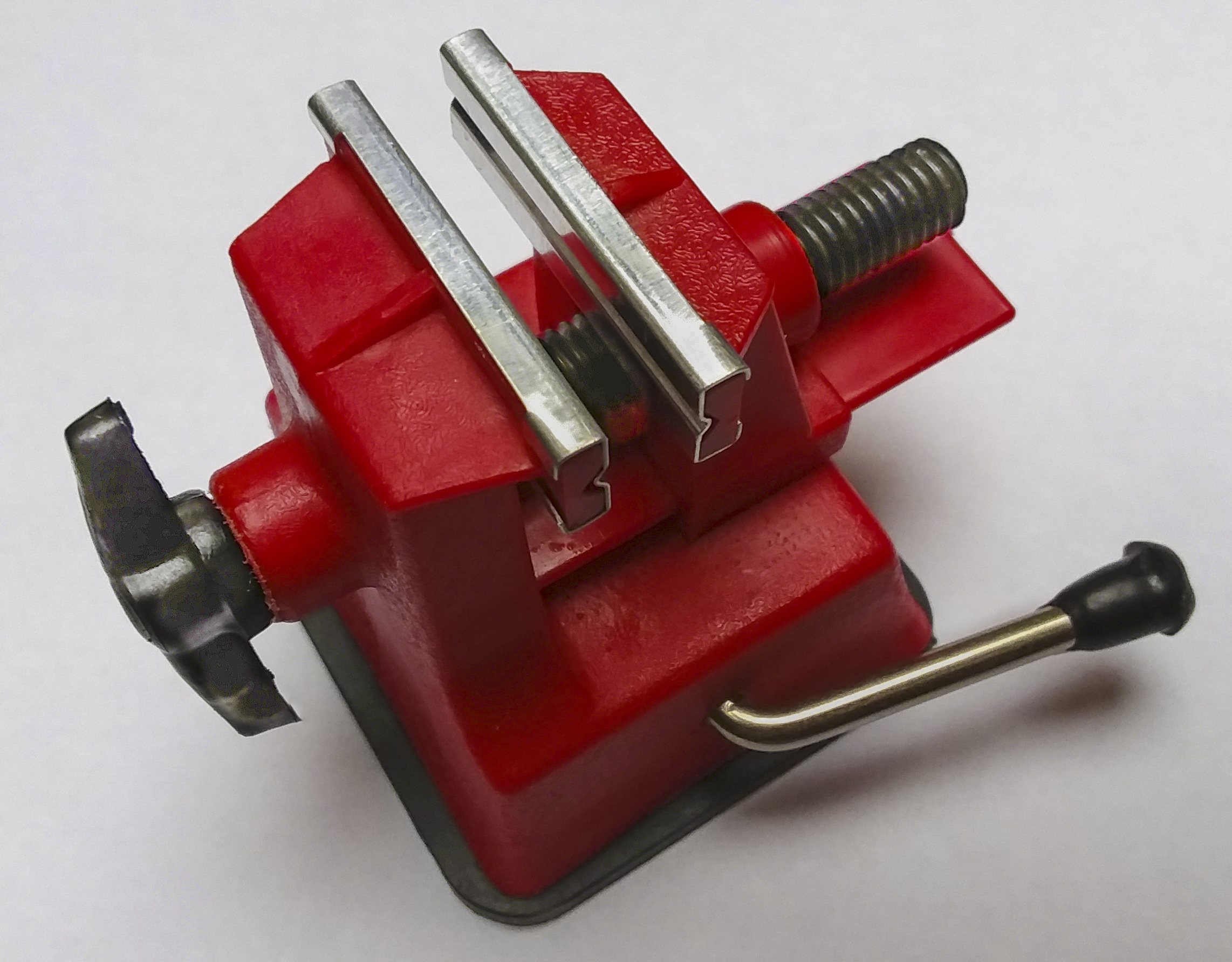 Miniature vise made of plastic. Suction platform at the bottom.